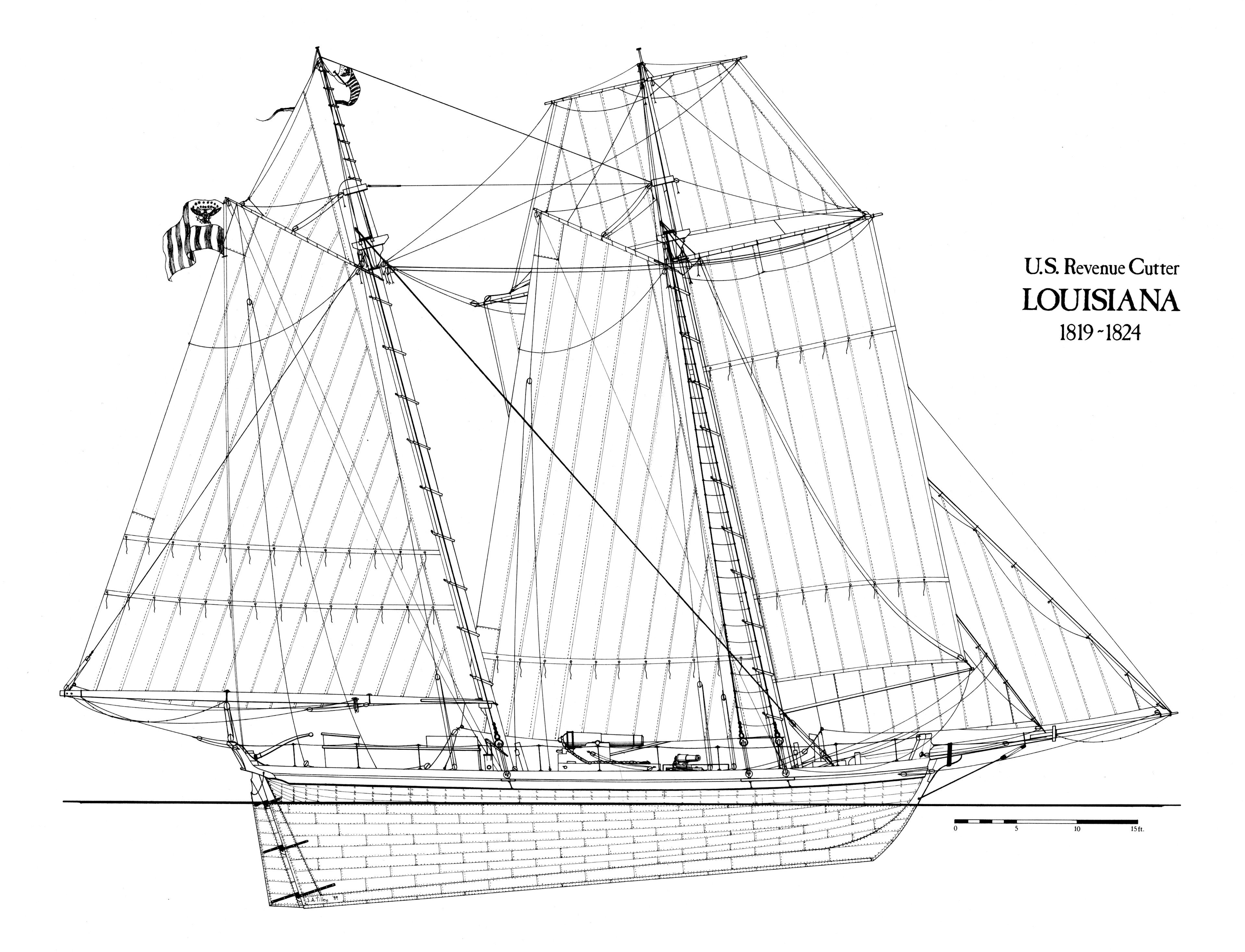 USRC Louisiana (1819-1824) cropped This image or file is a work of a United States Coast Guard service personnel or employee, taken or made as part of that person's official duties. As a work of the U.S. federal government, the image or file is in the public domain (17 U.S.C. § 101 and § 105, USCG main privacy policy and specific privacy policy for its imagery server).